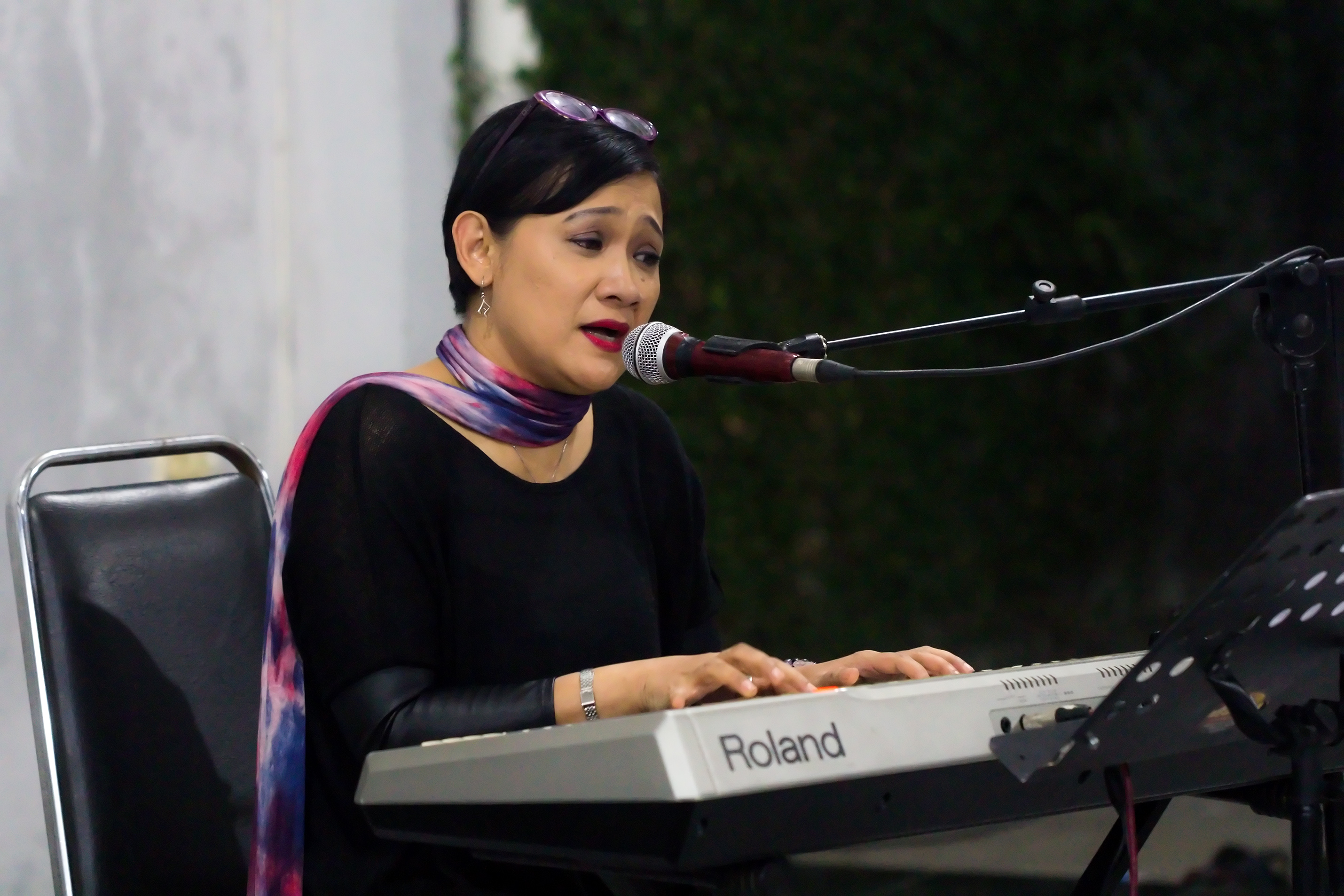 Indonesian pianist and composer Dian HP playing an art song at the slametan for Sitok Srengenge's new poetry collection Ereignis dan Cinta yang Keras Kepala, 2015-08-22. The song was based on one of Sitok's works.